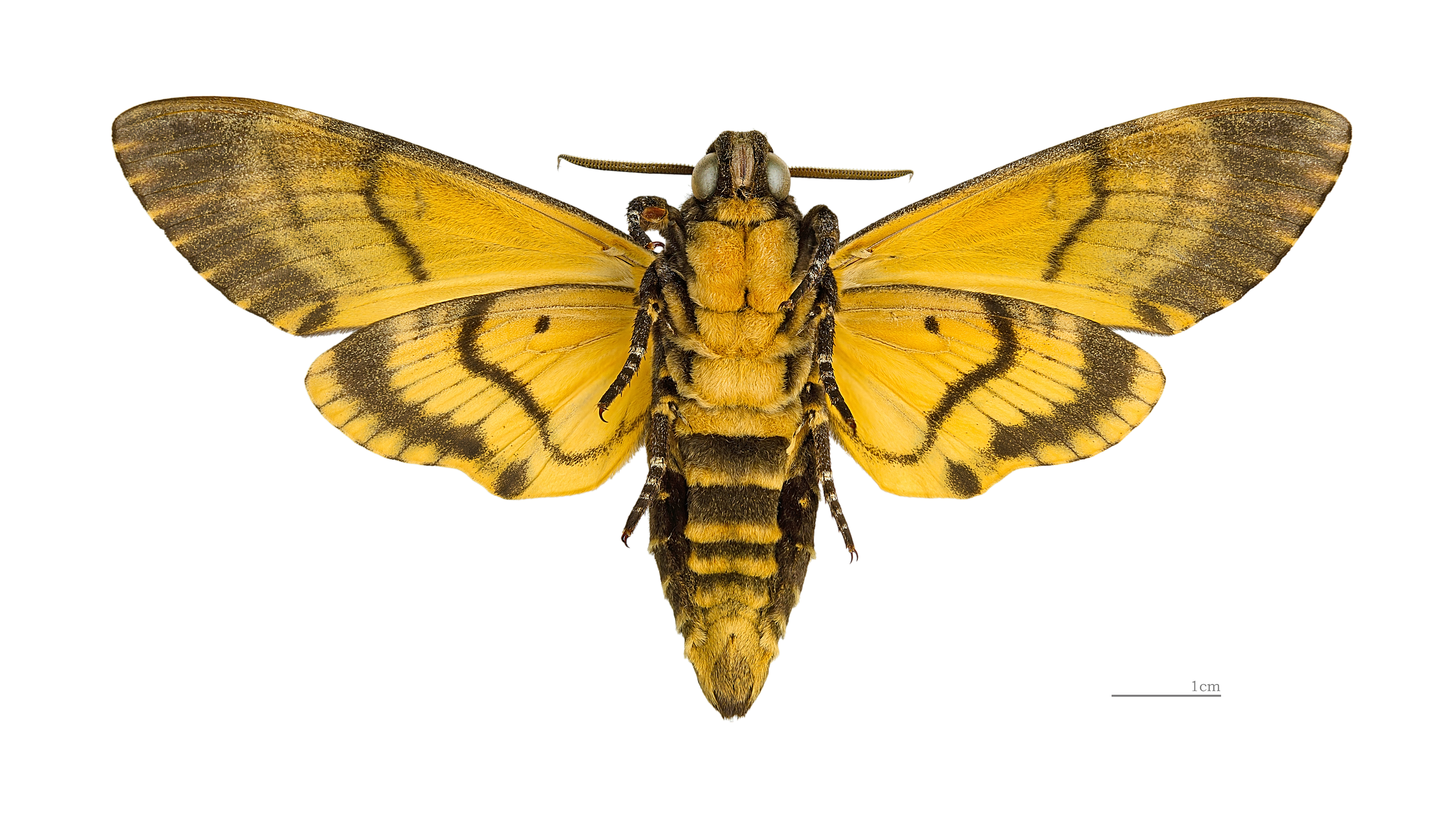 Death's-head Hawk moth - △ Ventral side Collection of the Mathematician Laurent Schwartz